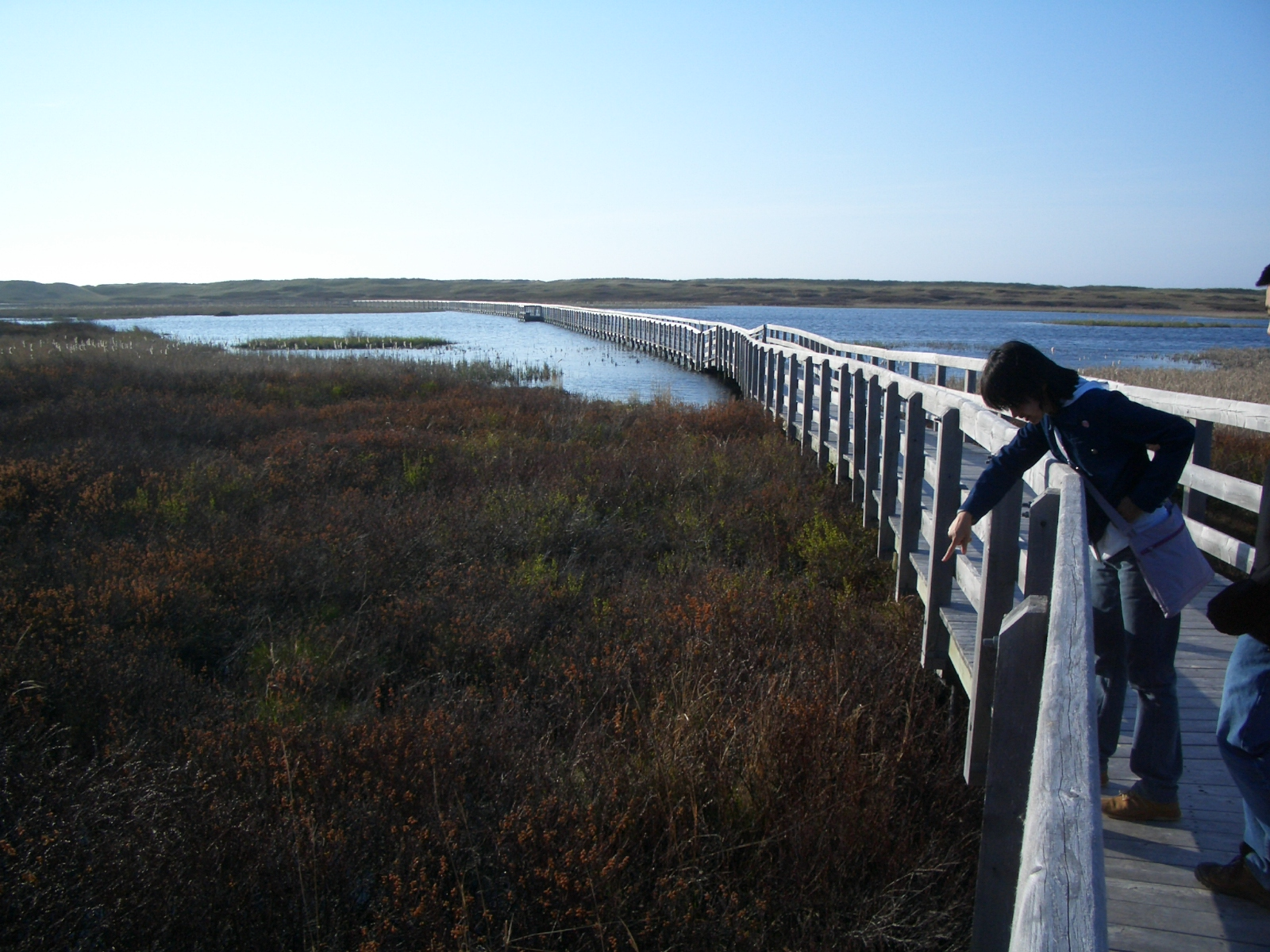 A wood boardwalk in Prince Edward Island National Park in Greenwich.